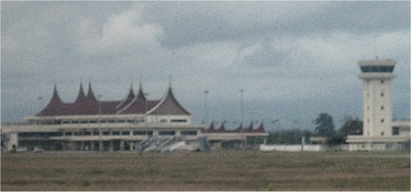 Photo by MichaelJLowe of Minangkabau International Airport in West Sumatra, Indonesia.